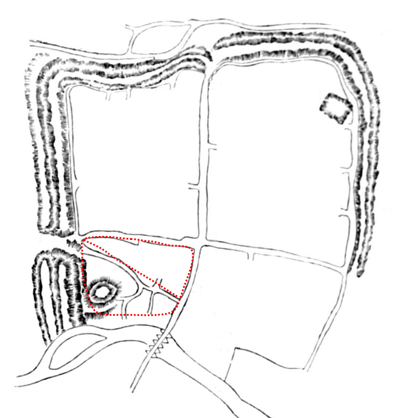 Wareham Castle and town defences, by G. T. Clark